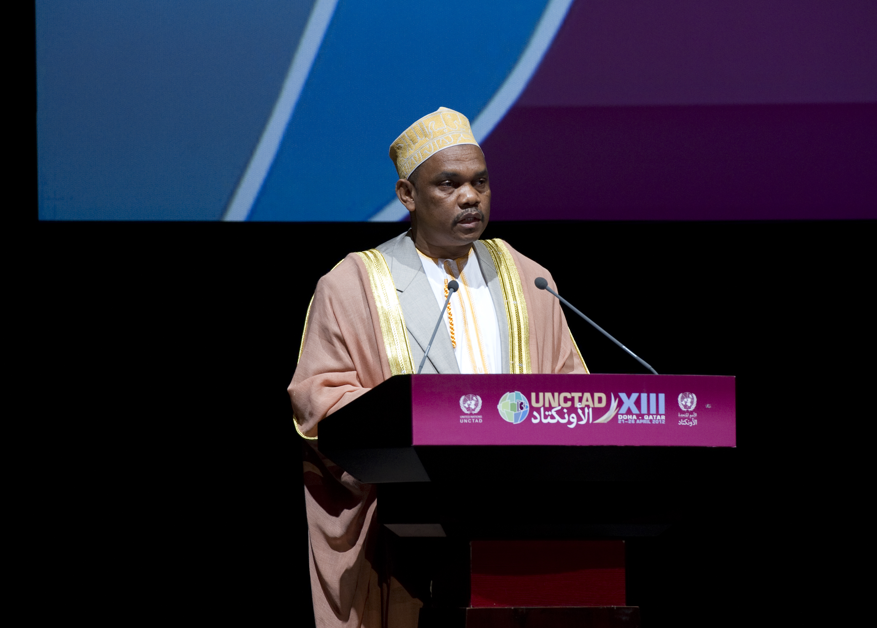 H.E. Mr. Ikililou Dhoinine, President of the Union of the Comoros speaking at the UNCTAD XIII Opening Ceremony